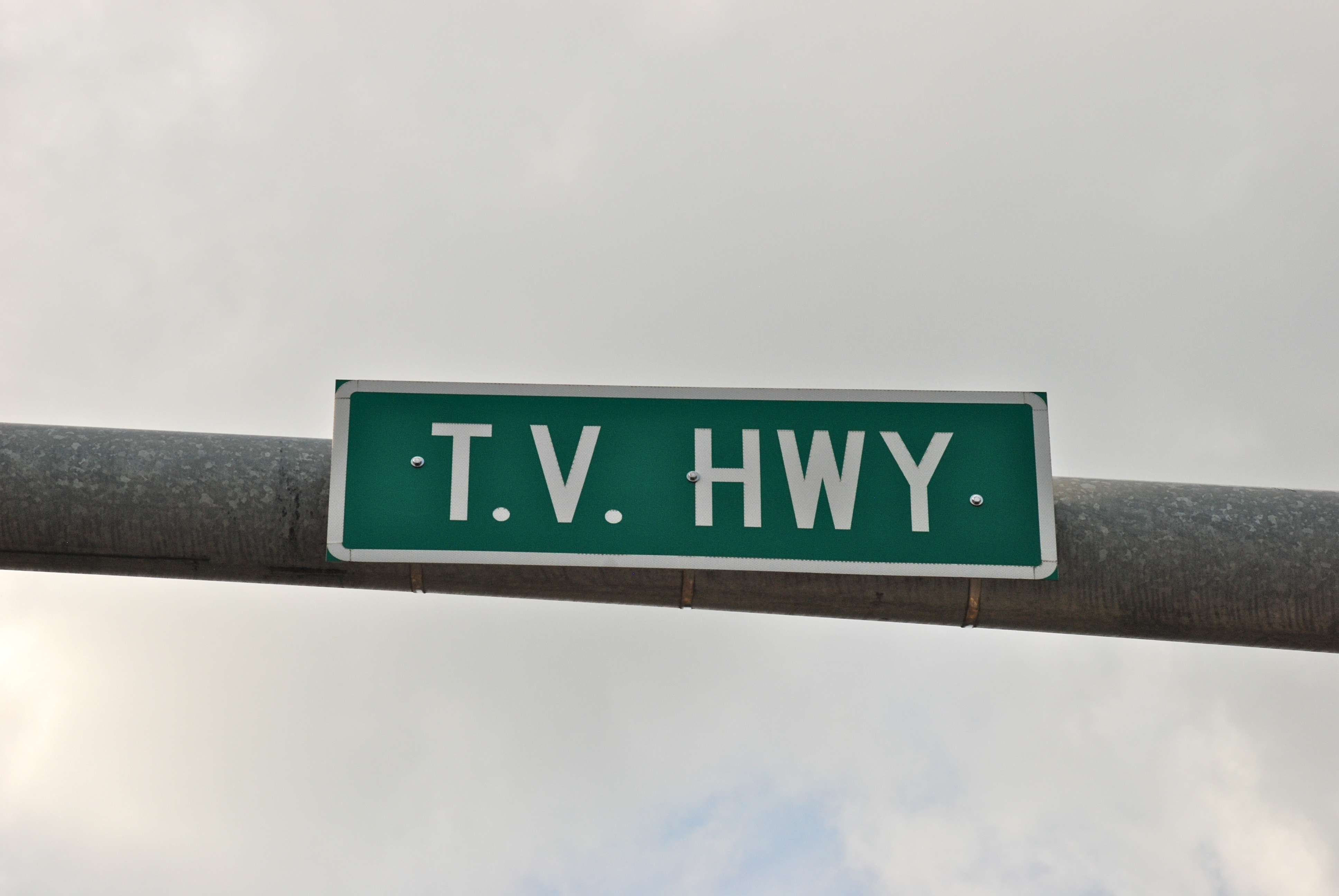 Sign marking T.V. Highway (Tualatin Valley Highway, part of Oregon state highway 8). This particular example is at the intersection with SE Brookwood Avenue, in the southeast part of Hillsboro, Oregon, but T.V. Highway also passes through other cities, including Beaverton, Cornelius and Forest Grove.